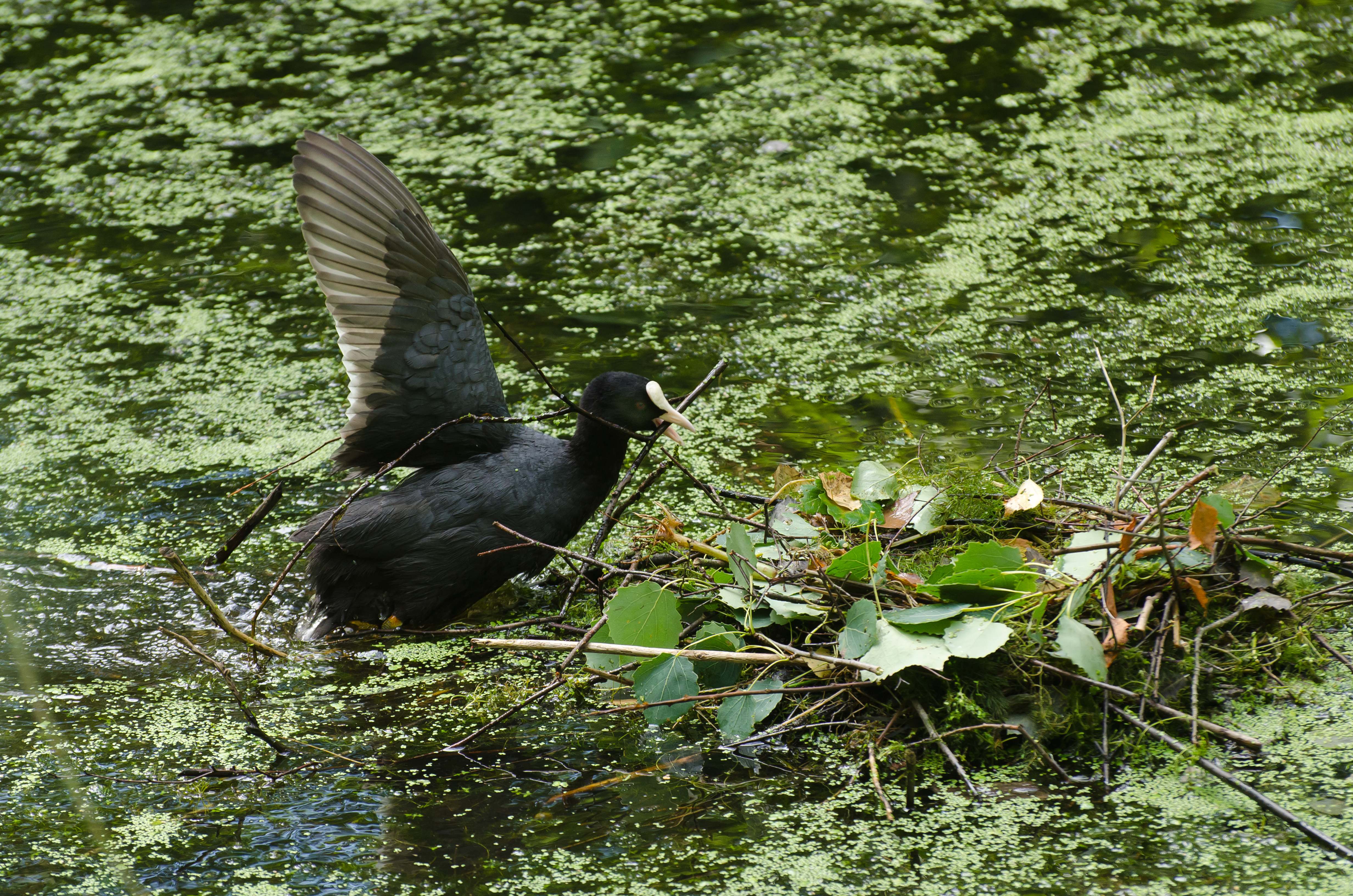 Eurasian Coot building its nest. Pfrunger-Burgweiler Ried, Upper Swabia, Germany